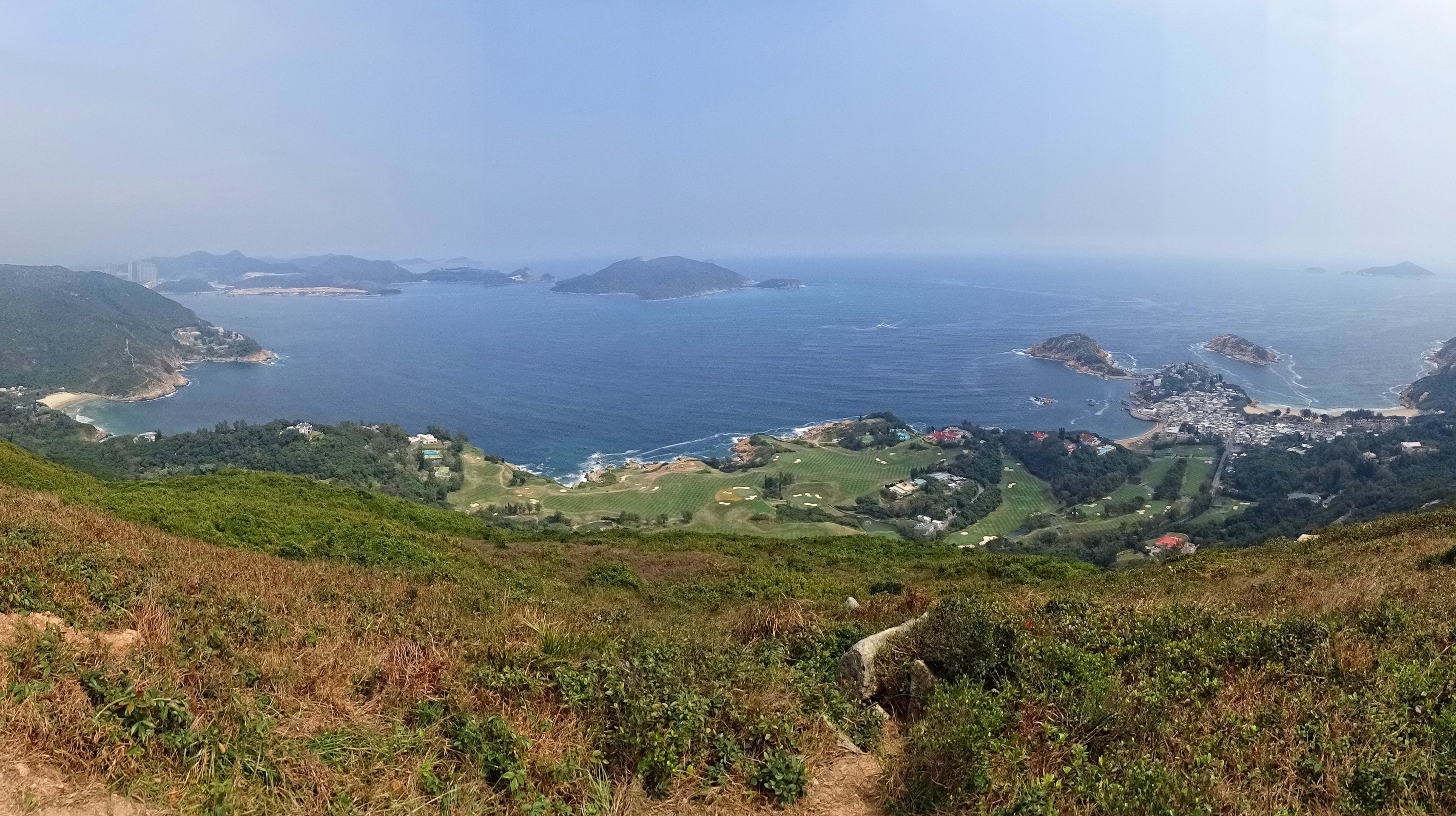 The Tathong Channel as seen from the top of the Dragon's Back hiking trail, from west towards the east.